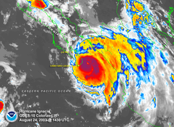 From GOES-10 Satellite, Hurricane Ignacio near peak intensity.